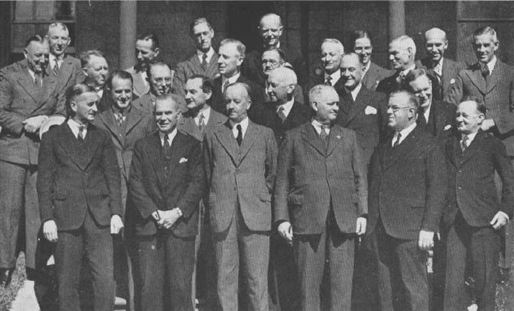 Medical officers attending tactical exercise April 1936 . Front Row: Lieut-Colonel W. A. B. Steele, Major-General O. F. Phillips, Major-General R. M. Downes, Brigadier J. L. Hardie, Colonel F. A. Maguire, Lieutenant-Colonel W. Vickers. Second Row: Major A. W. Morrow, Colonel A. L. Buchanan, Colonel N. L. Speirs, Major R. W. Walsh, Colonel G. W. Macartney. Third Row: Major R. L. Bennett, Colonel H. N. Butler, Major E. L. Cooper, Colonel W. H. Donald, Colonel E. R. White, Colonel J. A. H. Sherwin, Colonel D. M. McWhae. Back Row: Lieutenant A. Christie, Lieutenant-Colonel K. B. Fraser, Lieutenant-Colonel W. W. S. Johnston, Colonel S. R. Burston, Colonel C. G. Shaw, Lieutenant-Colonel J. Steigrad, Major K. A. McKenzie.